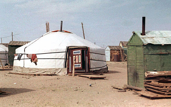 Mongolian yurt (ger). Baruun-Urt, Sukhbaatar aimag, 1972.